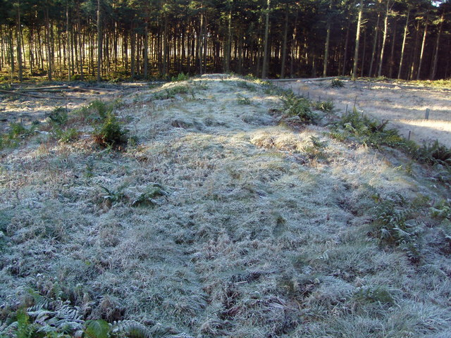 View along Top of Long Barrow from North